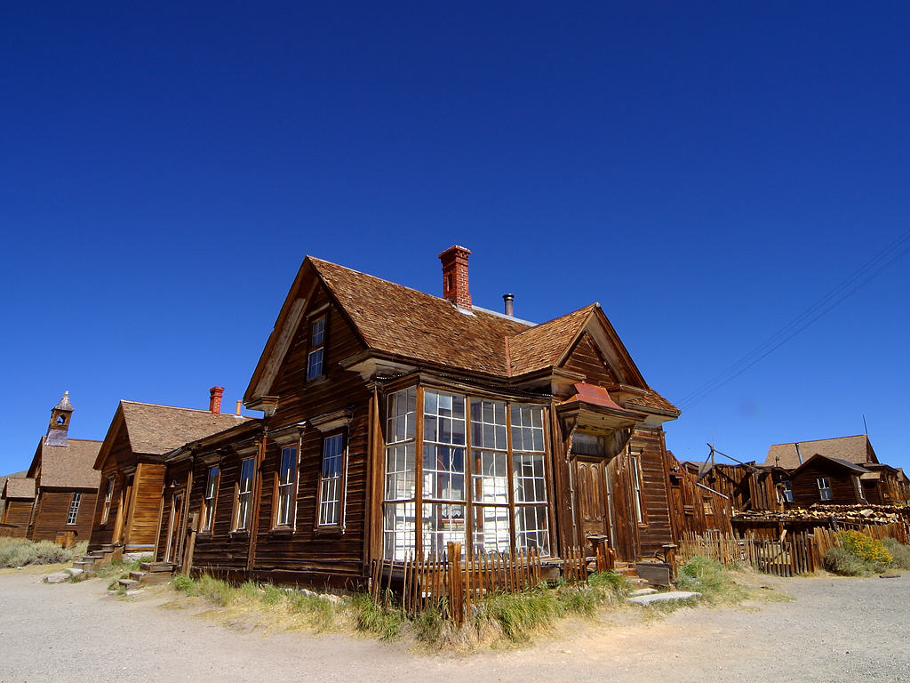 House in the ghost town of Bodie, California. Lens: Sigma 12-24mm. Keywords: Bodie California, ghost town, Wild West